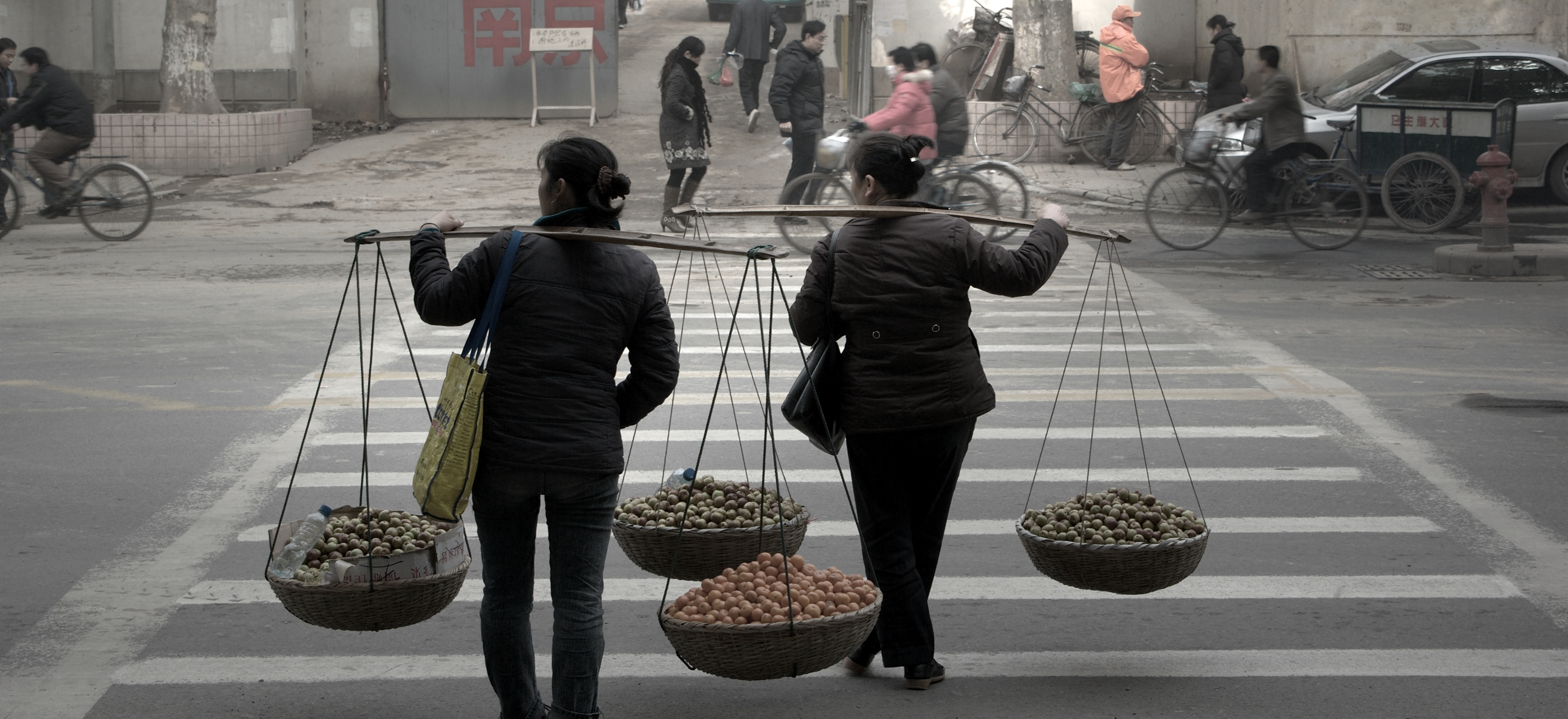 Two women are carrying baskets of fruits. Nanjing, China.